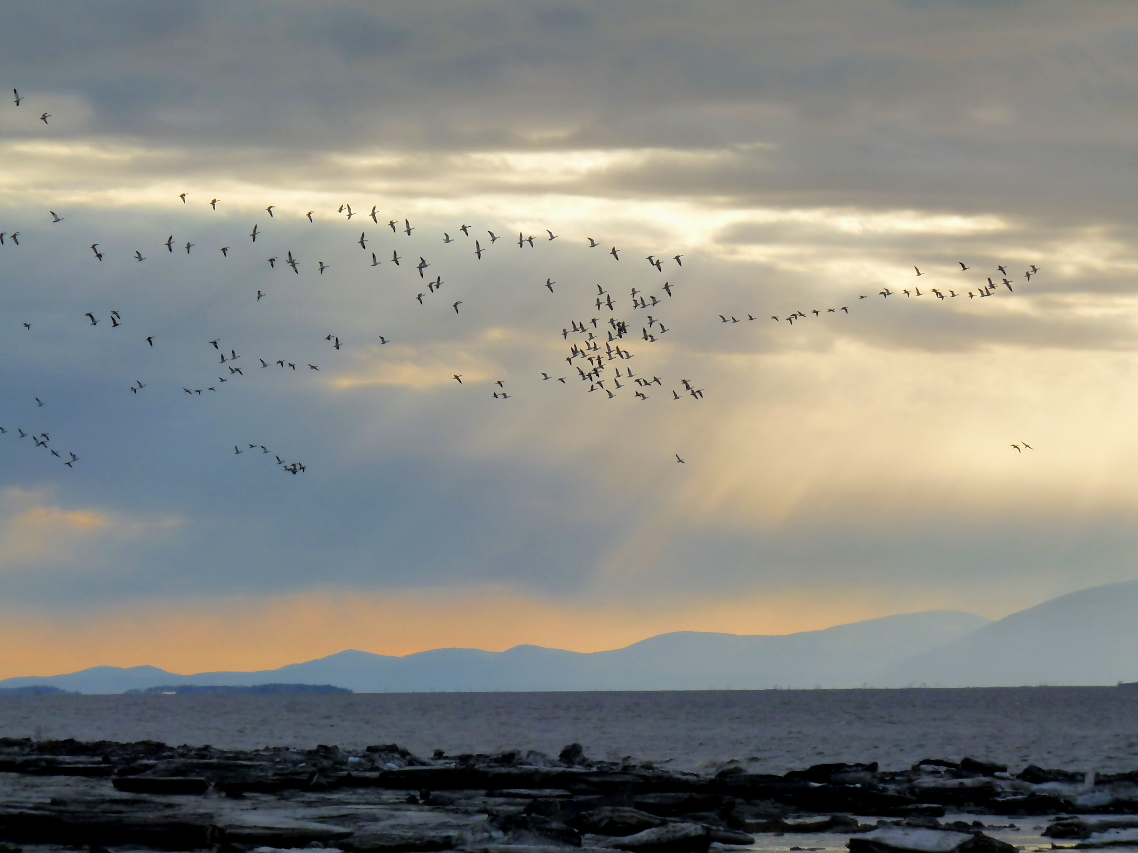 Flock of geese over the St. Lawrence River near L'Islet-sur-Mer